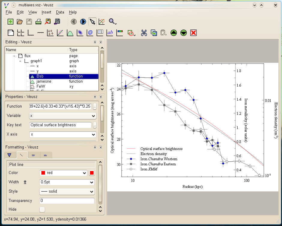 Screenshot of Veusz 1.3 before release